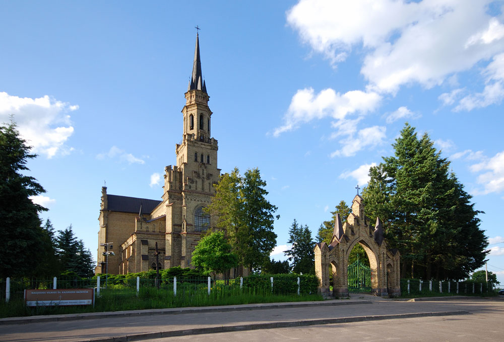 St. Casimir's Church, Naujoji Vilnia